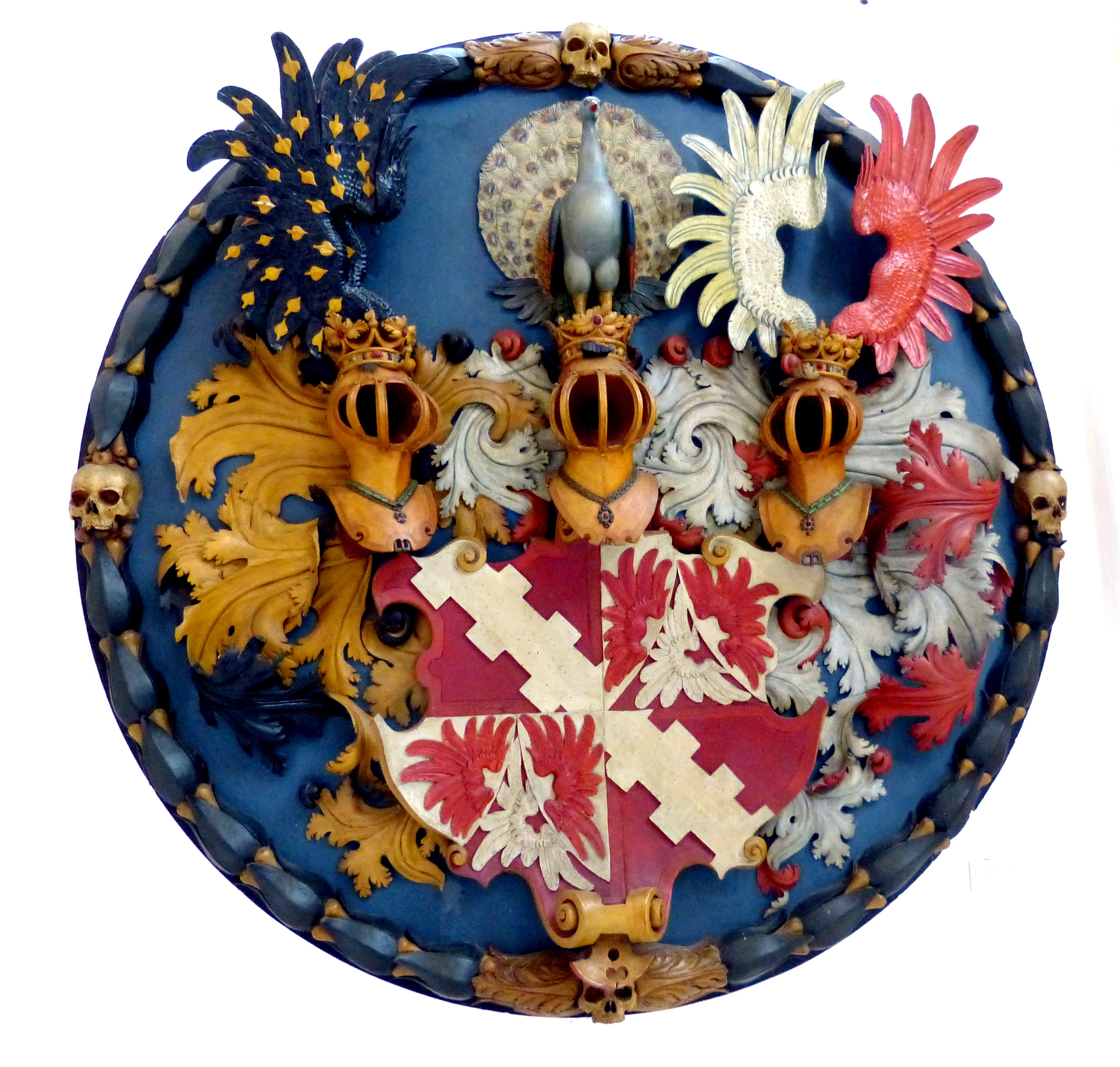 Ortenburg ( Lower Bavaria ). Parish church ( 16th century ) - Hatchment for Joachim von Ortenburg ( + 1600 )